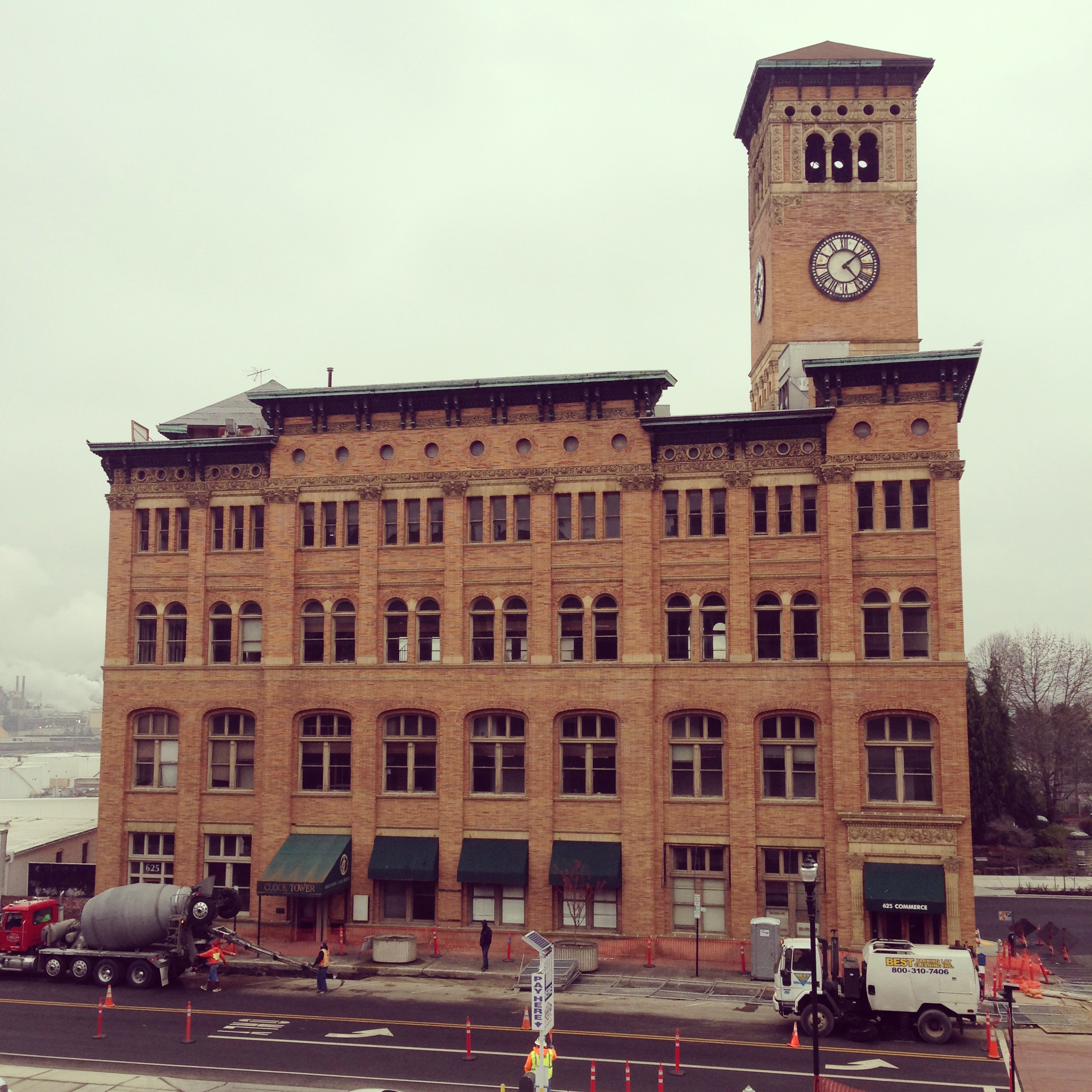 Old City Hall in Tacoma, WA